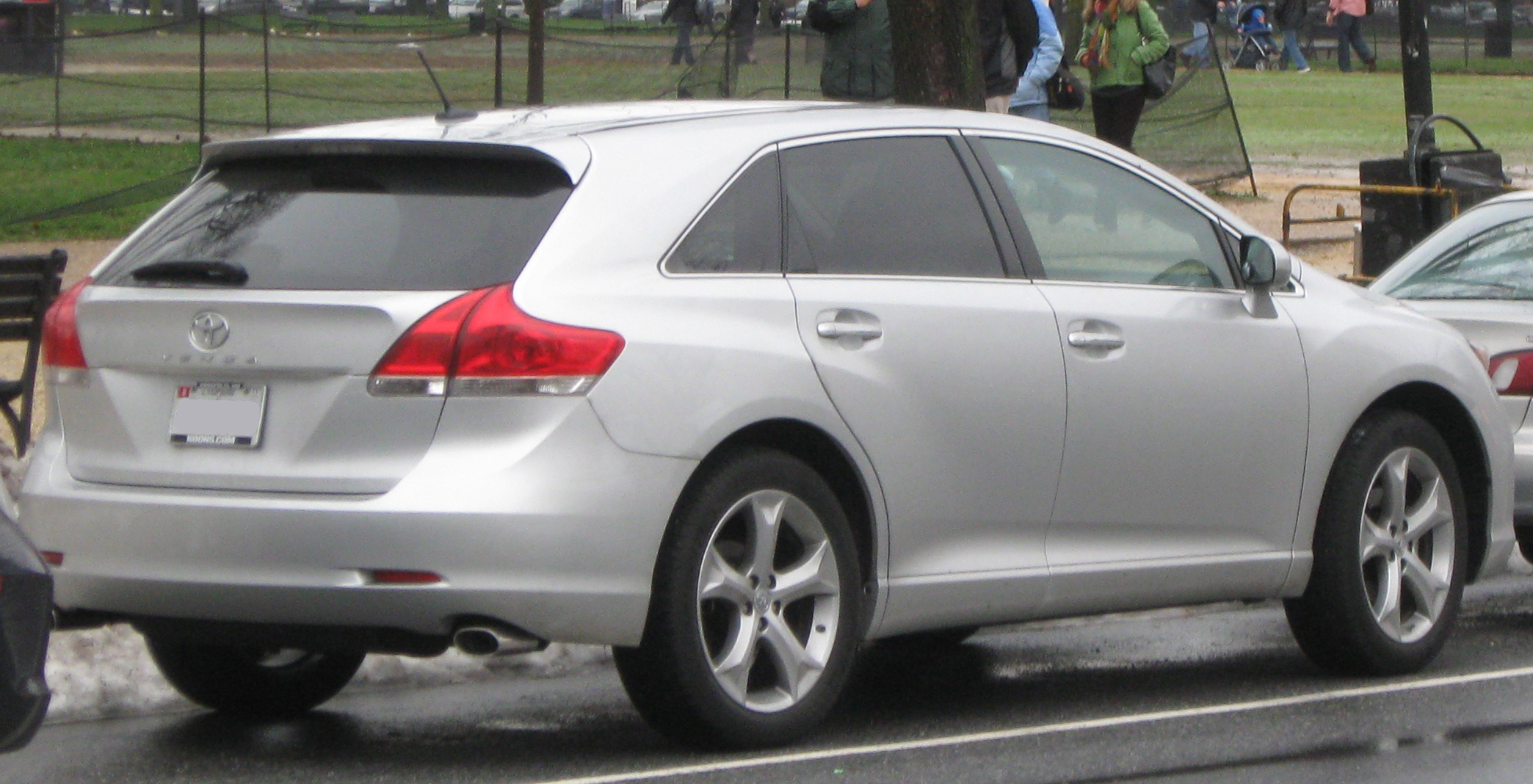 2009-2010 Toyota Venza photographed in Washington, D.C., USA.